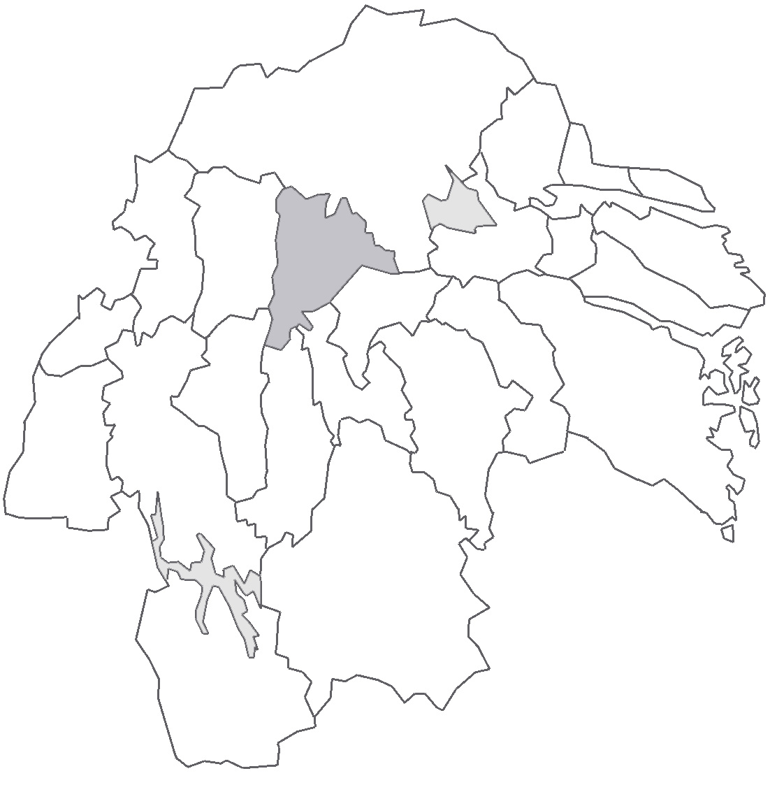 Map describing the location of Gullberg Hundred in Östergötland County, Sweden.